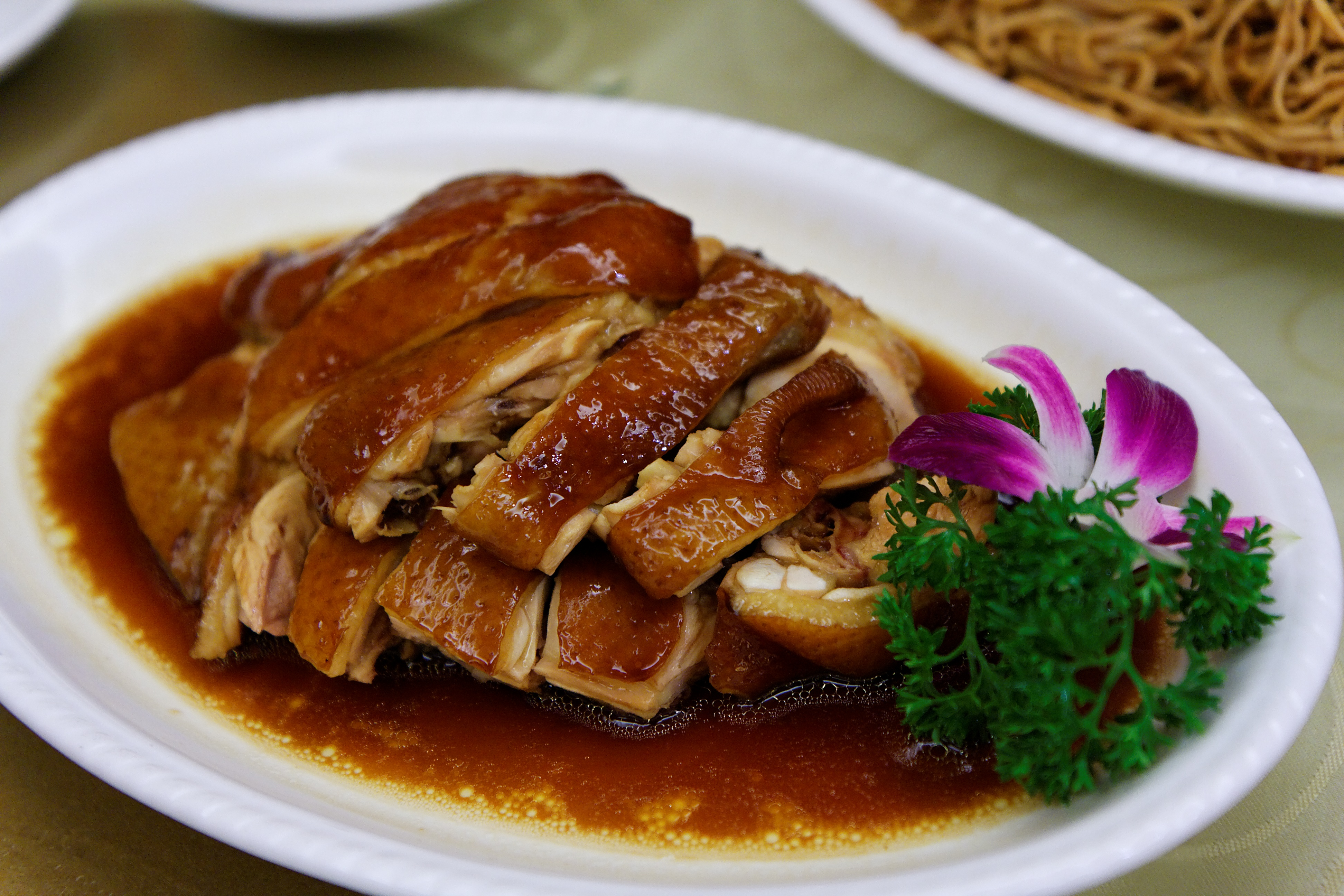 Marinated Chicken, Soy Sauce Chicken (豉油雞) Chicken with soy sauce in Yi Xi Restaurant. 益新食館豉油雞